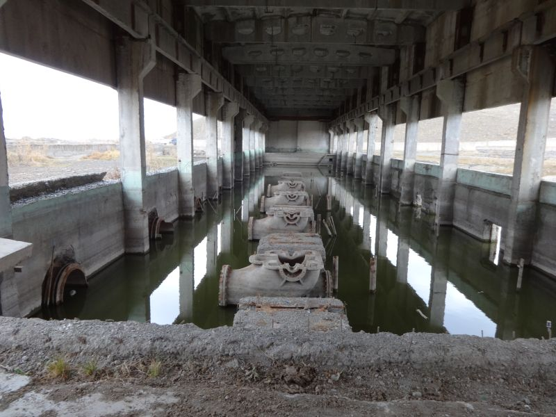 A deserted water pumping station in Northern Armenia